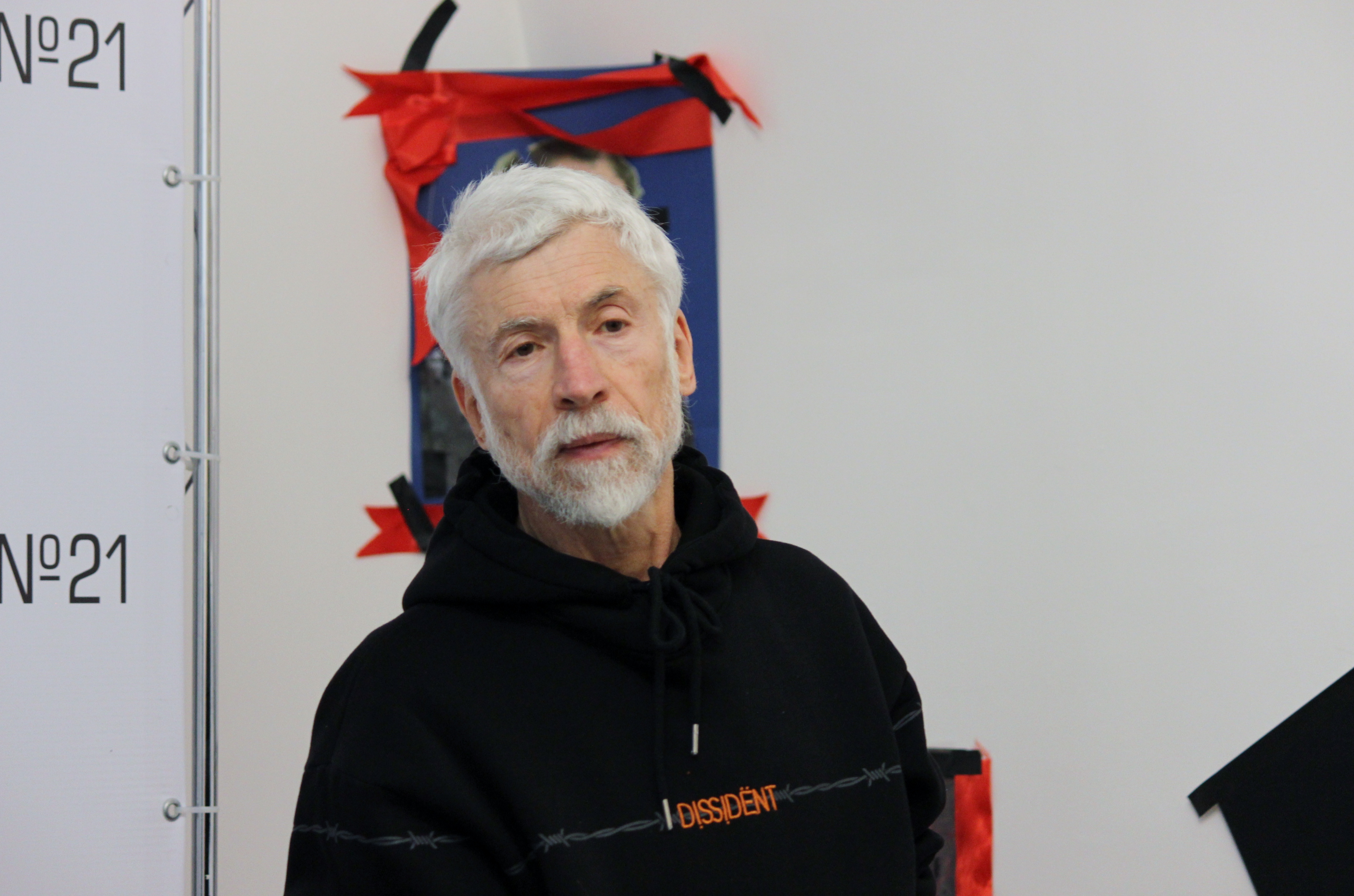 Russian journalist Alexandr Minkin at the 21 Moscow International Fair Non/fiction 2019